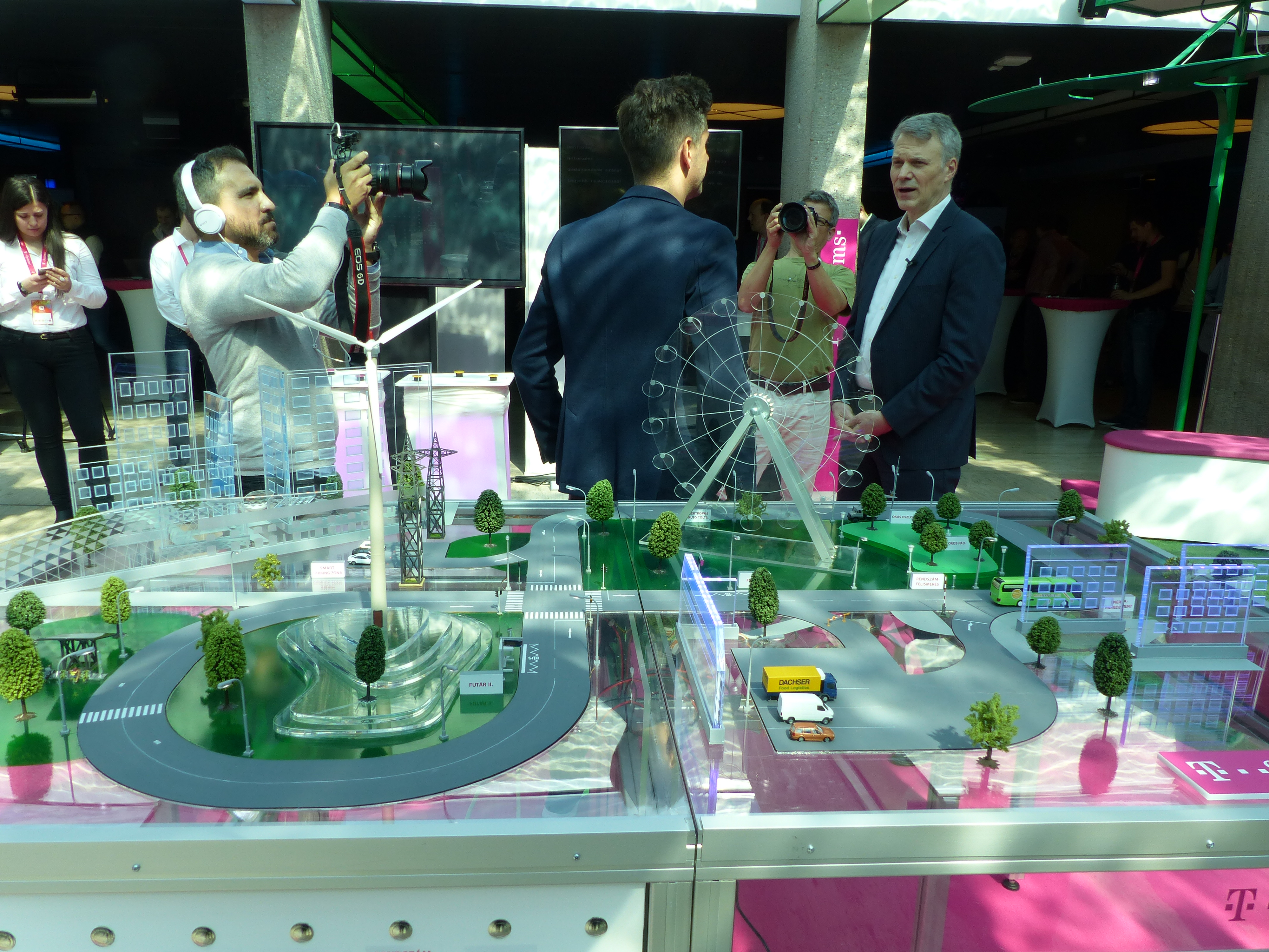 Christopher Mattheisen, Hungarian Telecom. SMART 2017 Conference. Budapest, Central Europe. Taken on the 5th of April, 2017, Akvárium in downtown Budapest. Tomorrow’s networks will not only carry copies of information faster, but will also transmit direct action, without restricting free motion. Thus the network effect (making connected systems more valuable than their parts) will highly intensify.